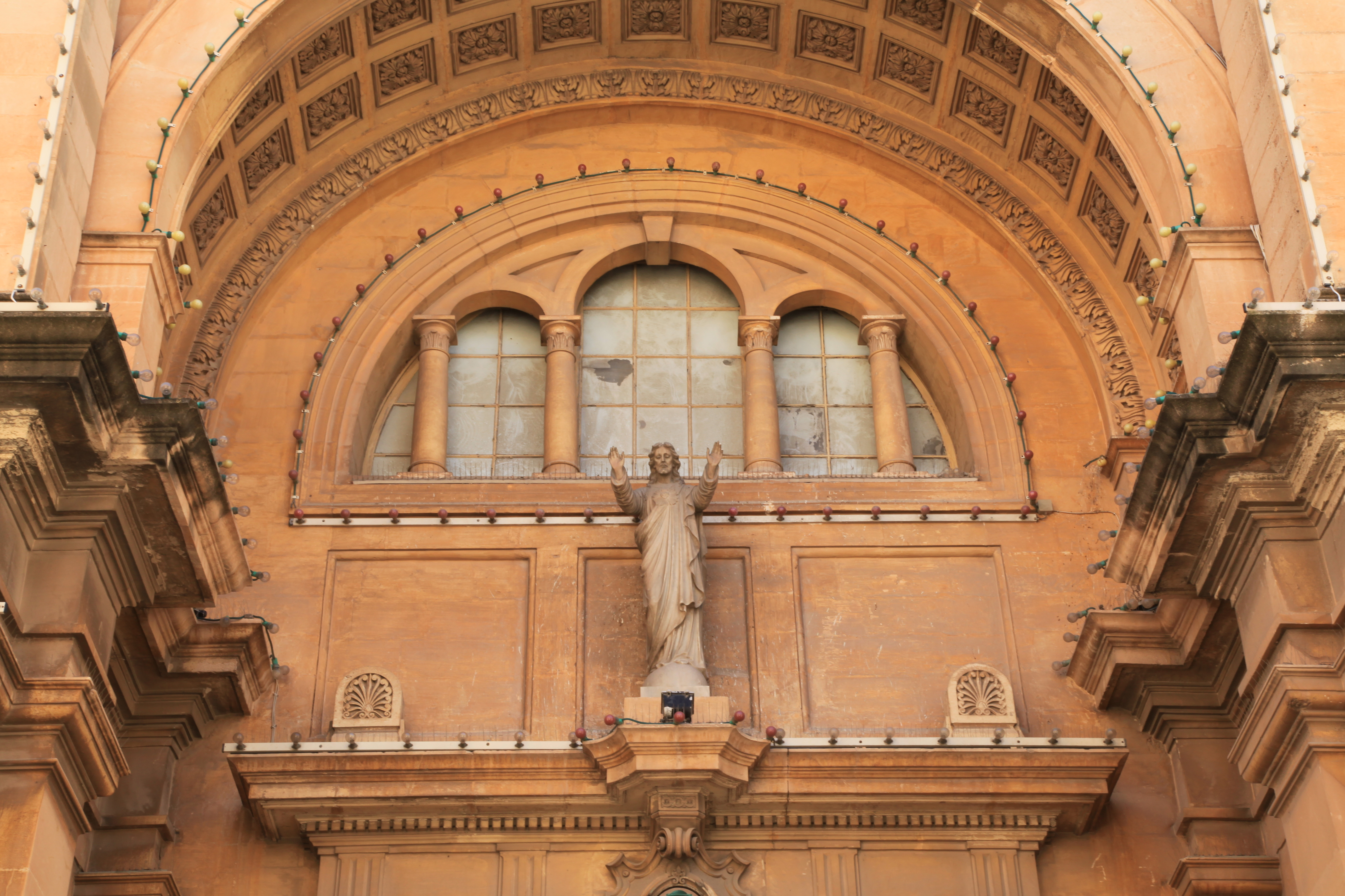 Stella Maris Church, Triq il-Kbira in Sliema, Malta